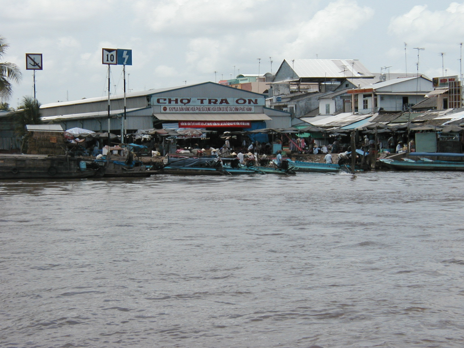 Tra On Market in Tra On district, Vinh Long prov., Vietnam